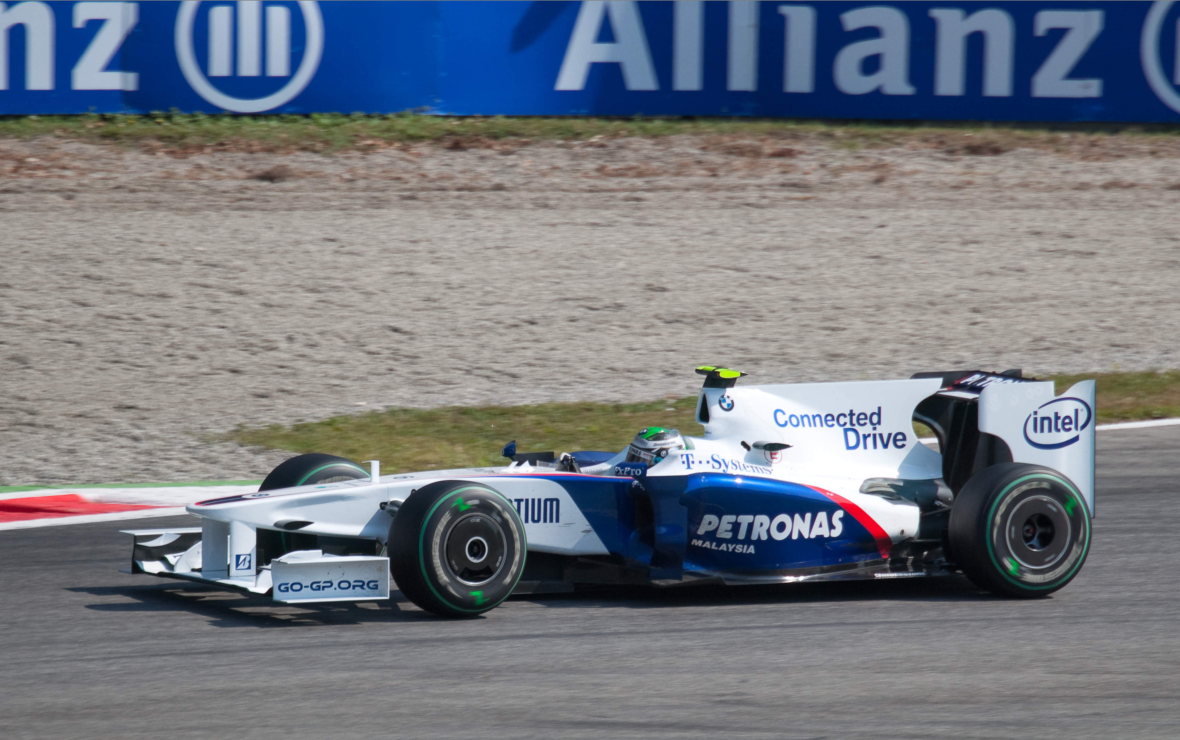 Nick Heidfeld driving for BMW Sauber at the 2009 Italian Grand Prix.